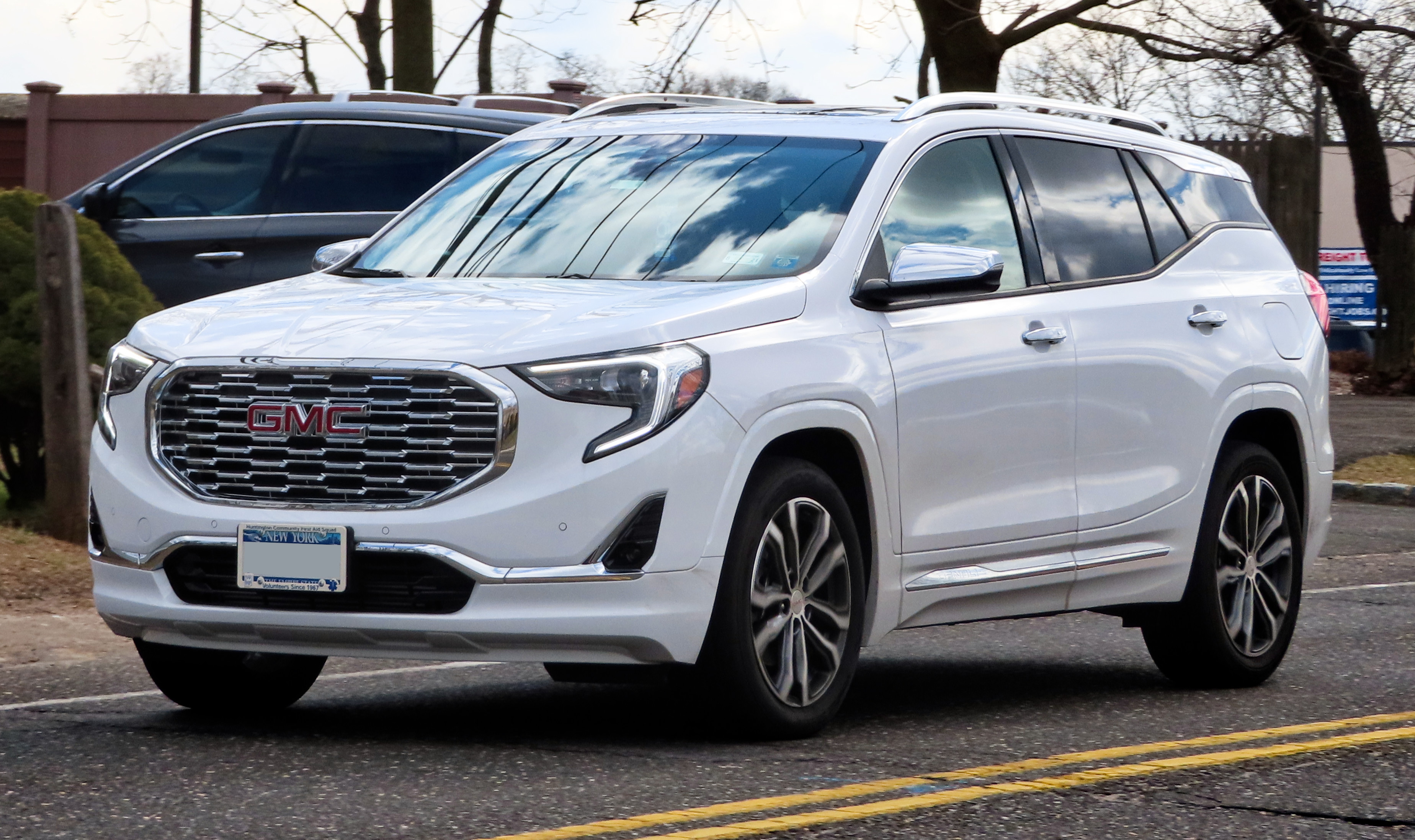 A 2019 GMC Terrain Denali photographed in Huntington, New York, USA